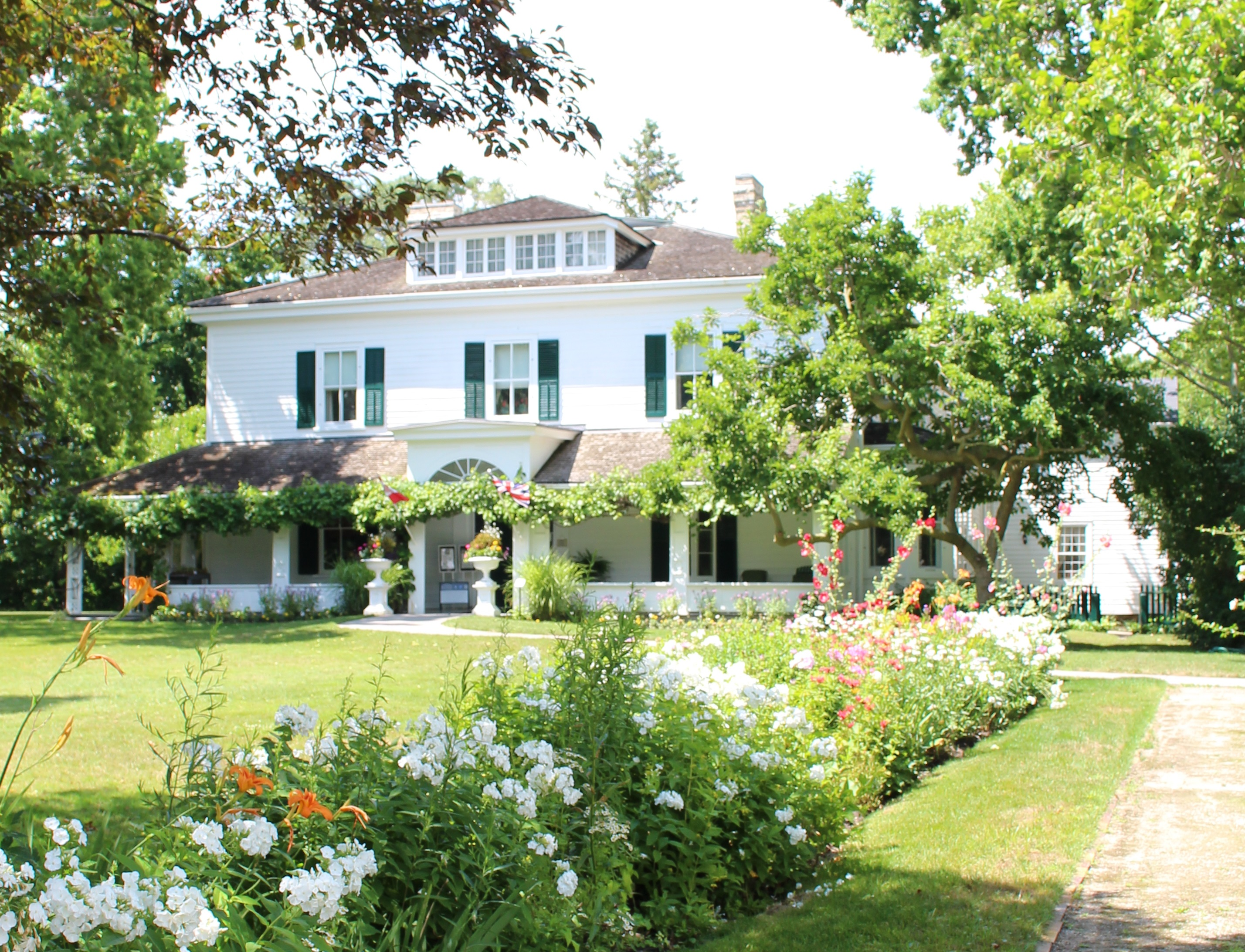 A view of Eldon House from Ridout Street.